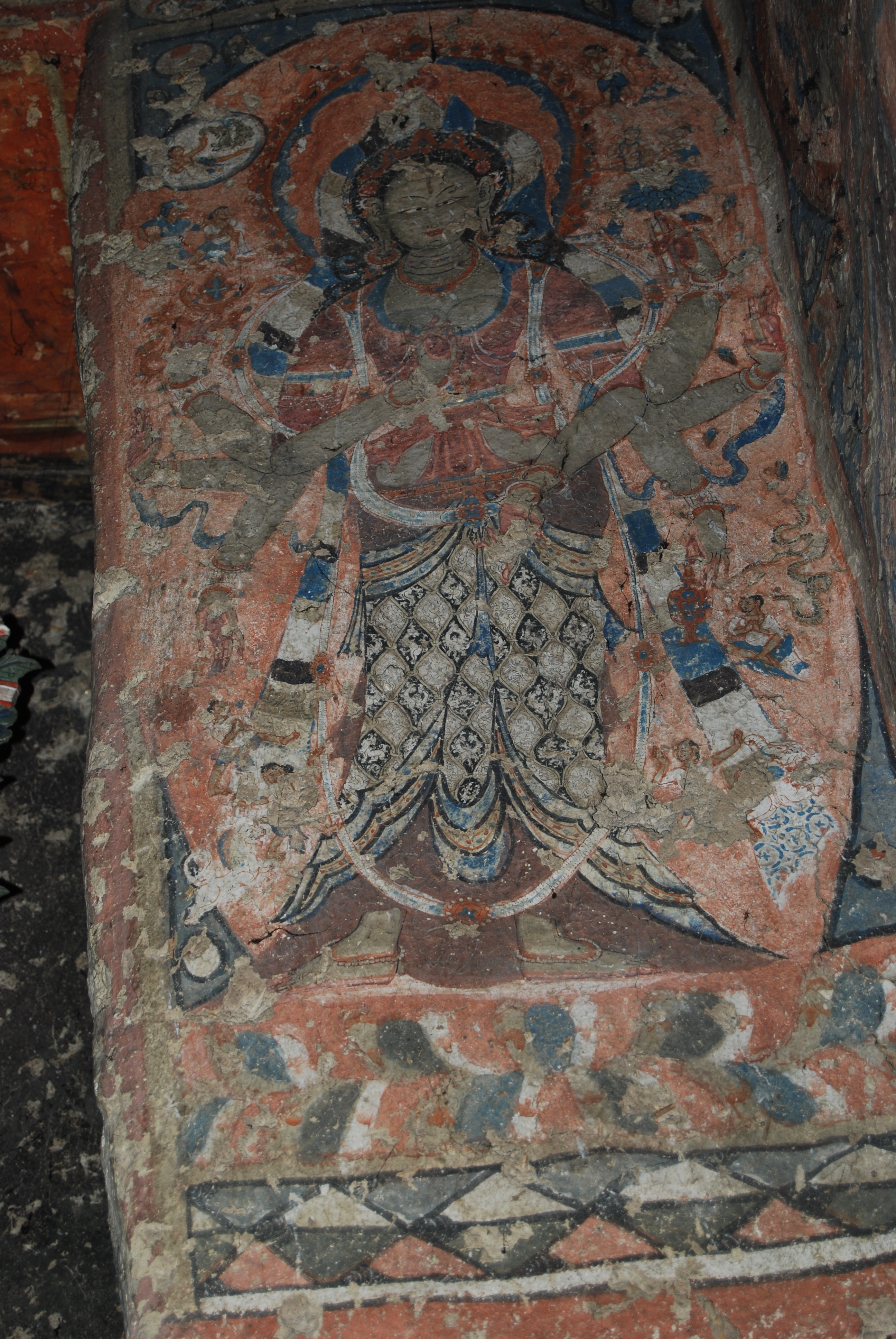 Early period painting in the four image chorten at the Mangyu temple complex